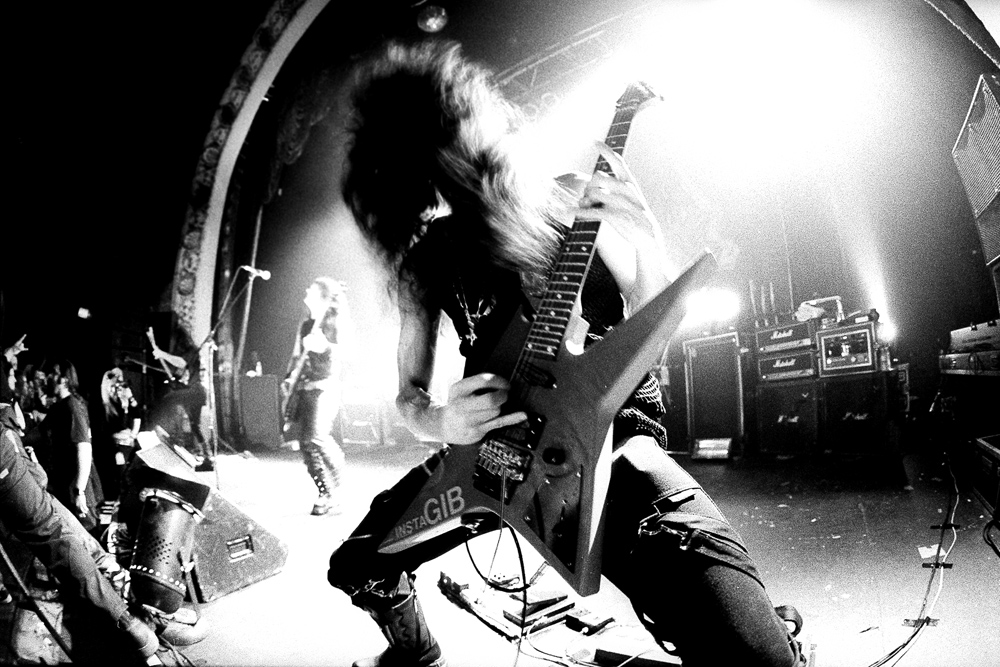 Morbid Angel